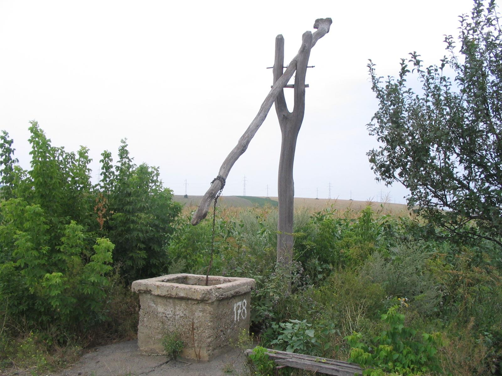 Shaduf in eastern Romania. Photo taken in August, 2005.Not home 04:16, 9 September 2007 (UTC)